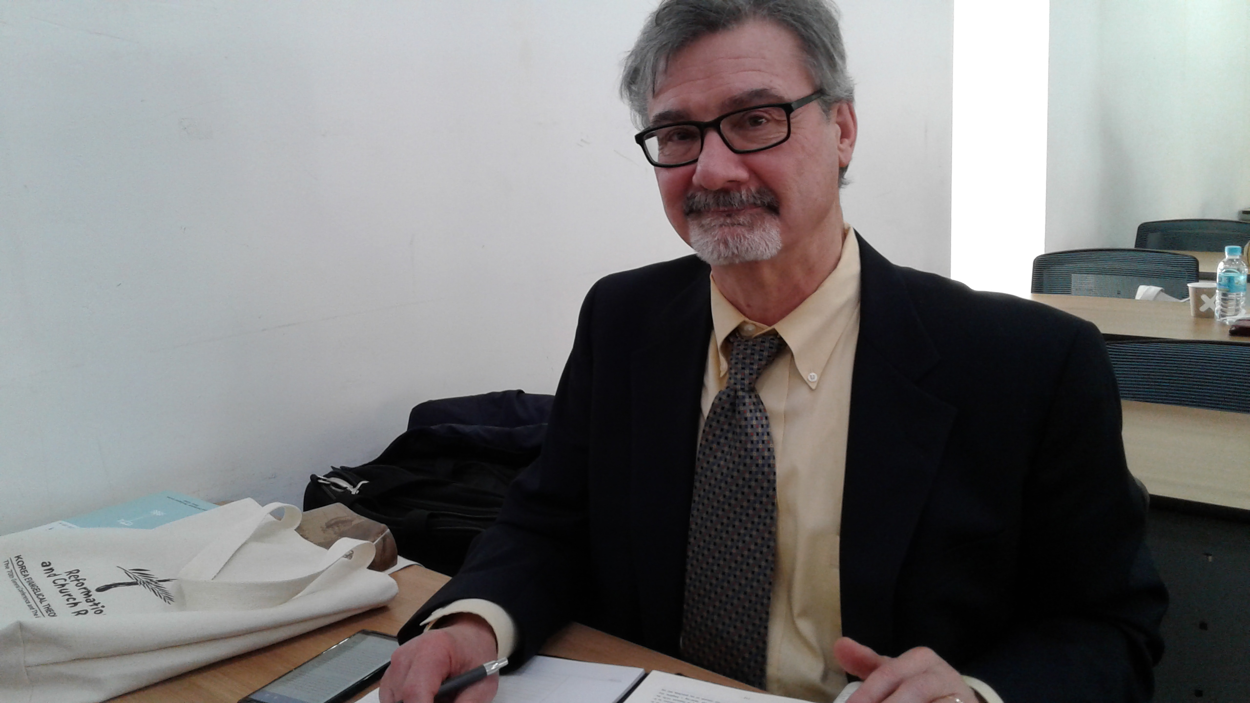 Prof. J Frank